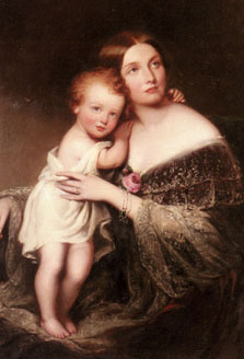 Princess Marie Amelie of Baden, possibly with her son William.